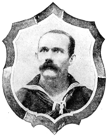 Halftone reproduction of a photograph of Medal of Honor recipient Coxswain Benjamin F. Baker, published in "Deeds of Valor," Volume II, page 362, by the Perrien-Keydel Company, Detroit, 1907.